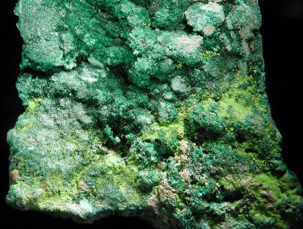 Sengierite, Malachite Locality: Cole Mine (Cole shaft; Cole No. 3), Bisbee, Warren District, Mule Mountains, Cochise County, Arizona, USA Original description: Light green sengierite crystals associated with darker green malachite, specimen is 11 mm. across. Ex Myer Crumb, his label says "MG - '75". K. Nash specimen and photo.